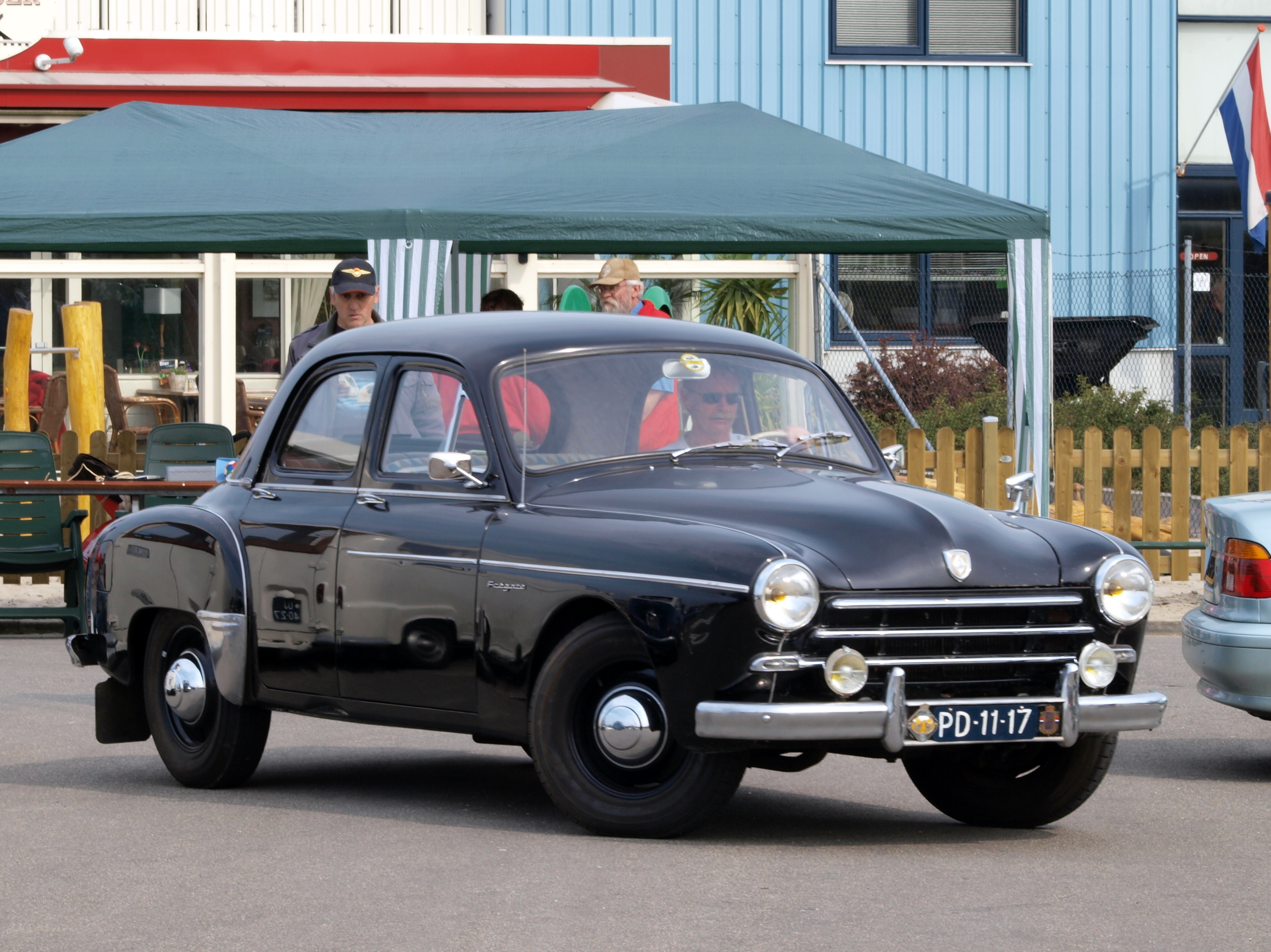 Cars and motorcycles photographed at the Voorschotense Oldtimer Vereniging Show, Valkenburgse meer, The Netherlands. OLYMPUS DIGITAL CAMERA